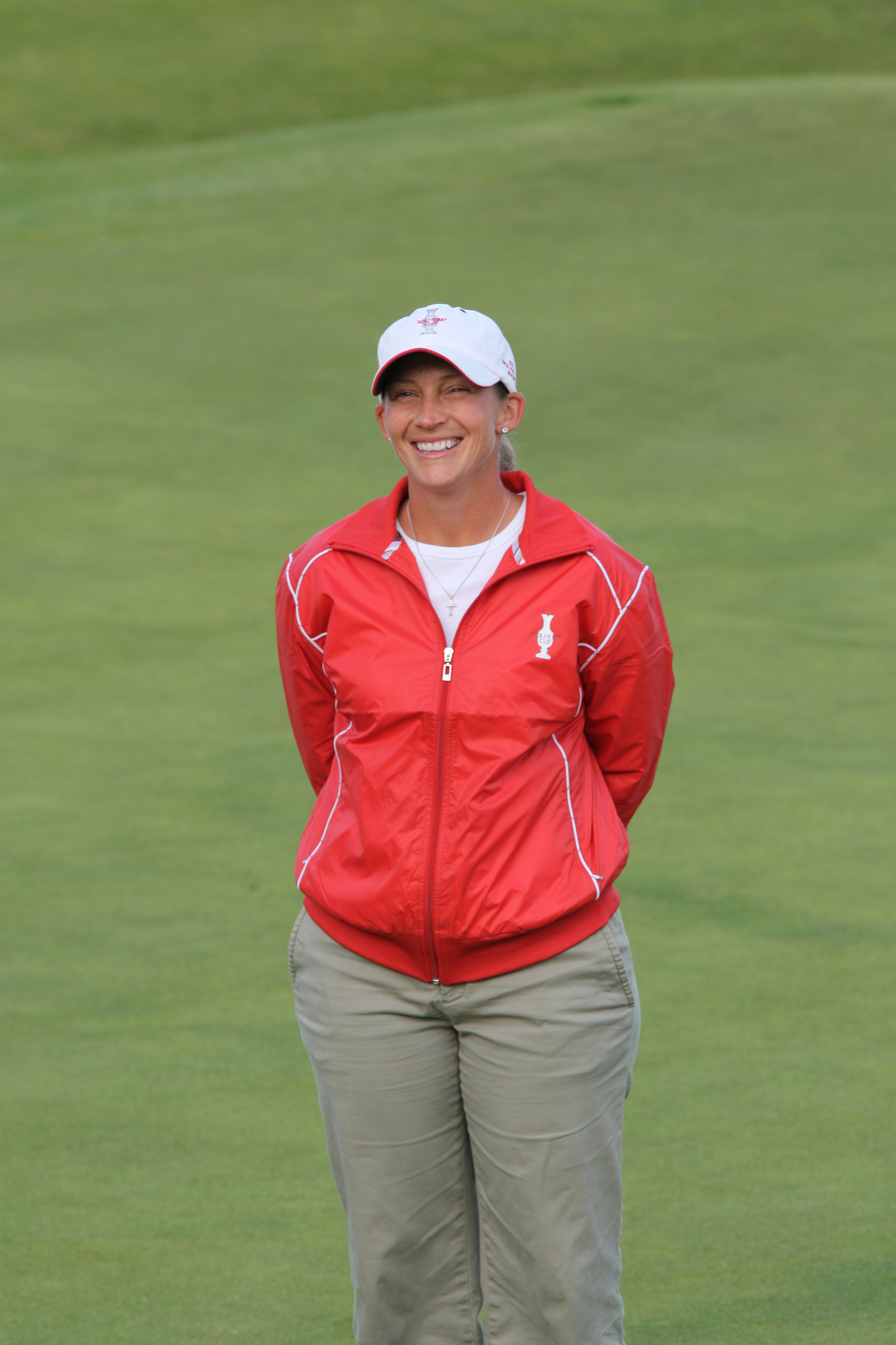 LYTHAM ST ANNES, UNITED KINGDOM - AUGUST 02: Angela Stanford of USA, member of the USA Solheim Cup Team, posing for a photograph after announcement of Solheim Cup teams, which followed final round of the 2009 Ricoh Women's British Open held at Royal Lytham & St Annes on August 2, 2009 in Lytham St Annes, England. (Photo by Wojciech Migda)